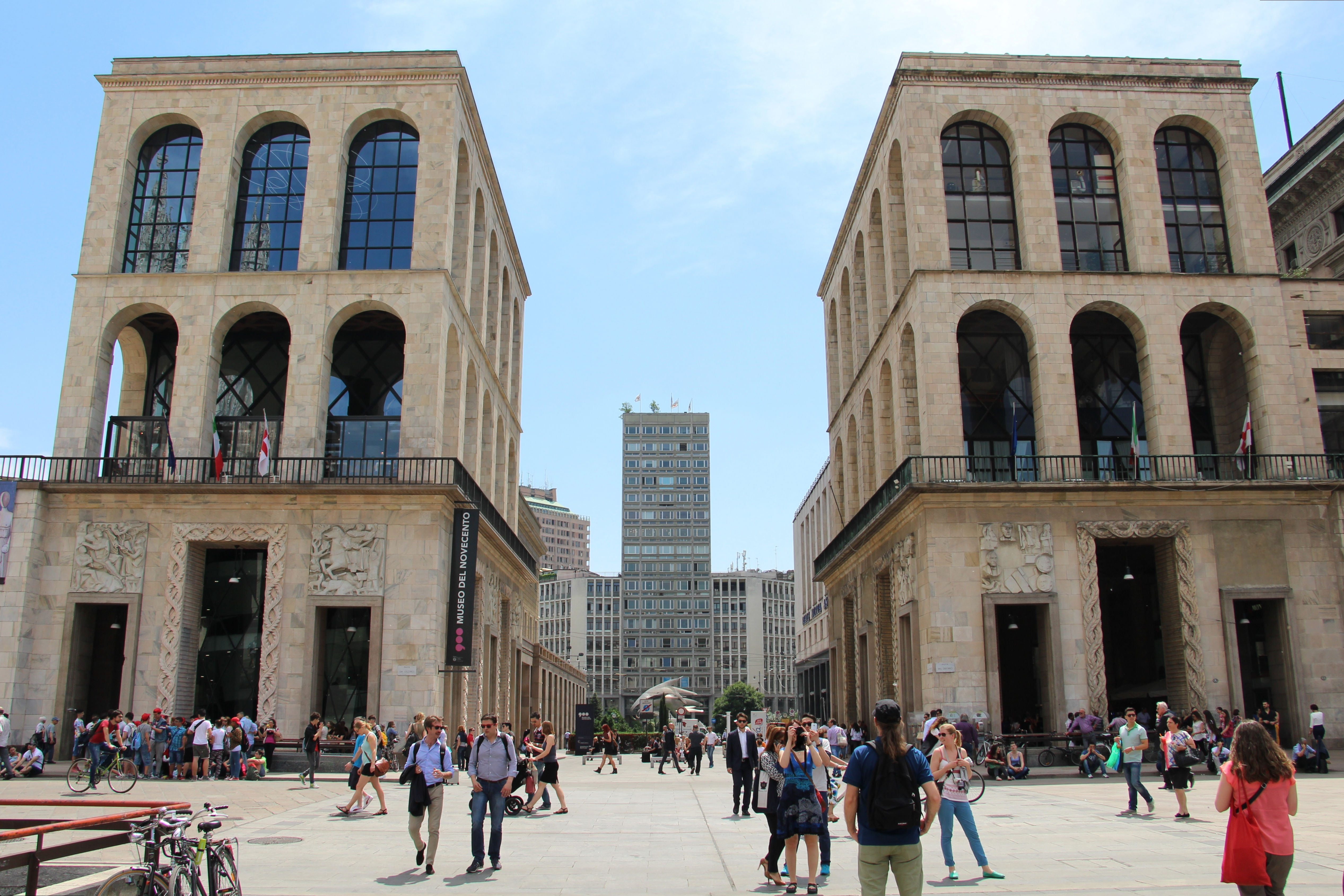 Palazzo dell'Arengario in Milan, Italy, seat of the "Museo del Novecento" ("Museum of the 1900s") art gallery.